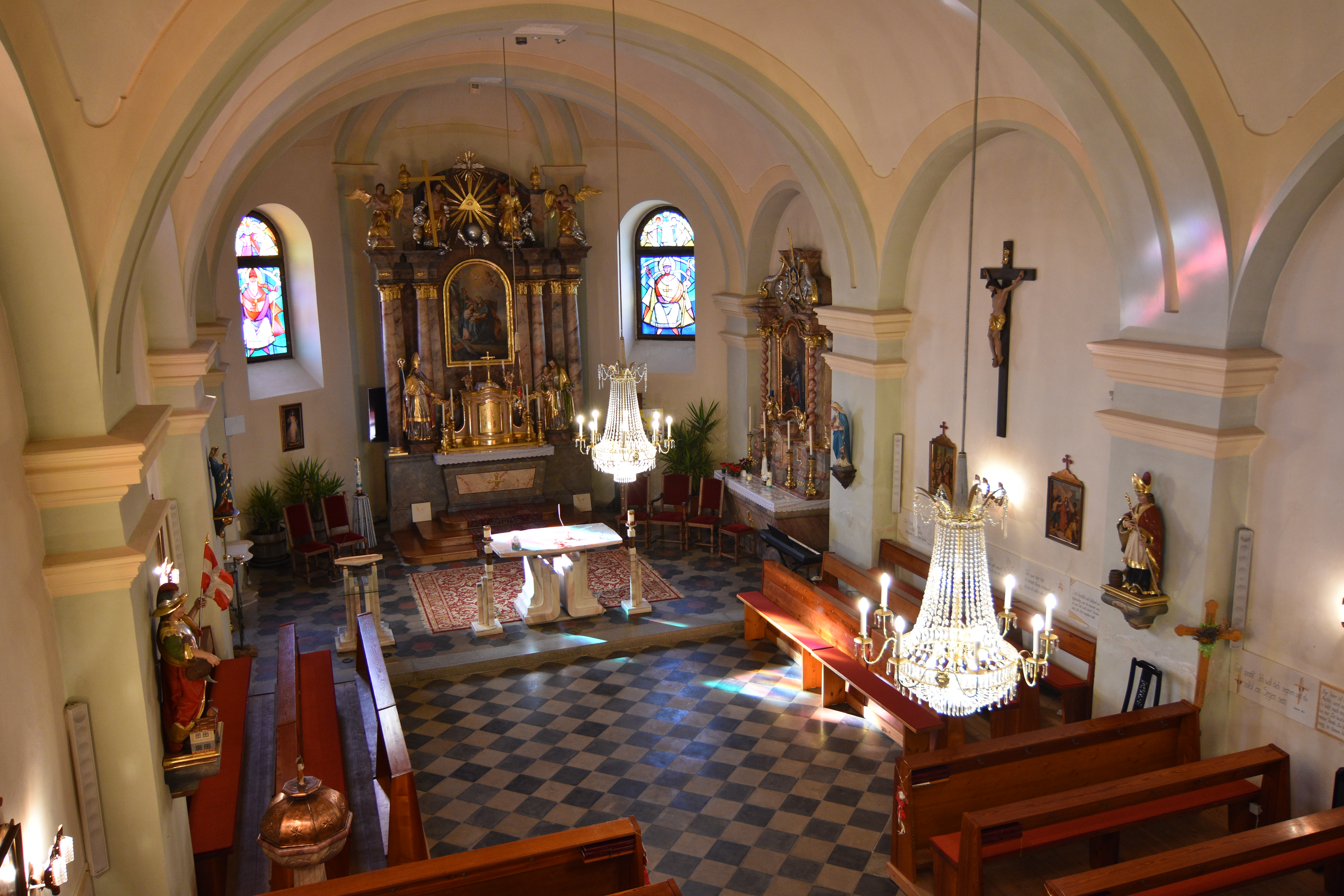 Church Oberdorf im Burgenland - Interior